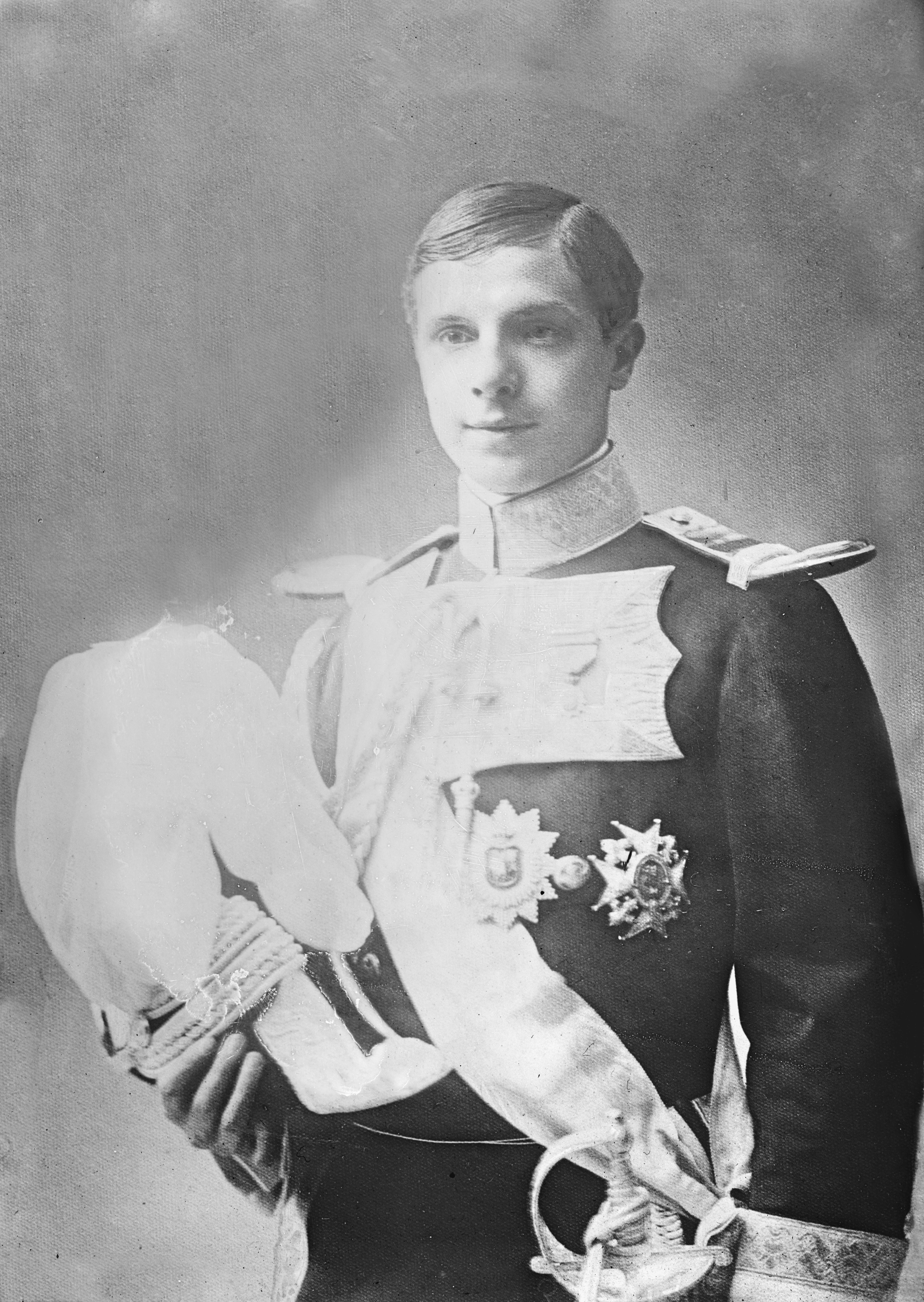 Prince Luis Fernando D'Orleans About This Item Obtaining Copies Access to Original Title: [Prince Luis Fernando D'Orleans] Creator(s): Bain News Service, publisher Date Created/Published: [between ca. 1910 and ca. 1915] Medium: 1 negative : glass ; 5 x 7 in. or smaller. Summary: Photo shows Spanish prince Luis Fernando de Orleans y Borbon (1888-1945). (Source: Flickr Commons project, 2010) Reproduction Number: LC-DIG-ggbain-15798 (digital file from original negative) Rights Advisory: No known restrictions on publication. Call Number: LC-B2- 3030-3 [P&P] Repository: Library of Congress Prints and Photographs Division Washington, D.C. 20540 USA Notes: Title devised by Library staff. (Source: Flickr Commons project, 2011 and similar Bain negative: LC-B2- 6150-9) Incorrect title from data provided by the Bain News Service on the negative: Prince Louis Ferdinand. Forms part of: George Grantham Bain Collection (Library of Congress). General information about the Bain Collection is available at Format: Glass negatives. Collections: Bain Collection Bookmark This Record: View the MARC Record for this item. Rights assessment is your responsibility.